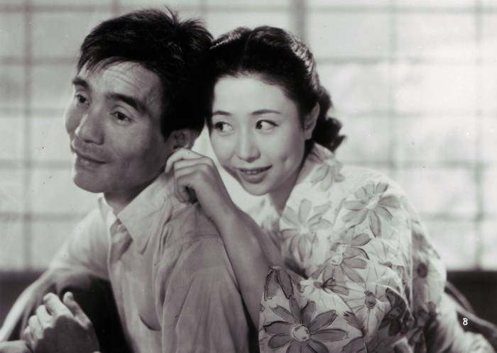 Nobuko Otowa and Jukichi Uno in 1951 Japanese movie Aisai Monogatari (Story of a Beloved Wife).